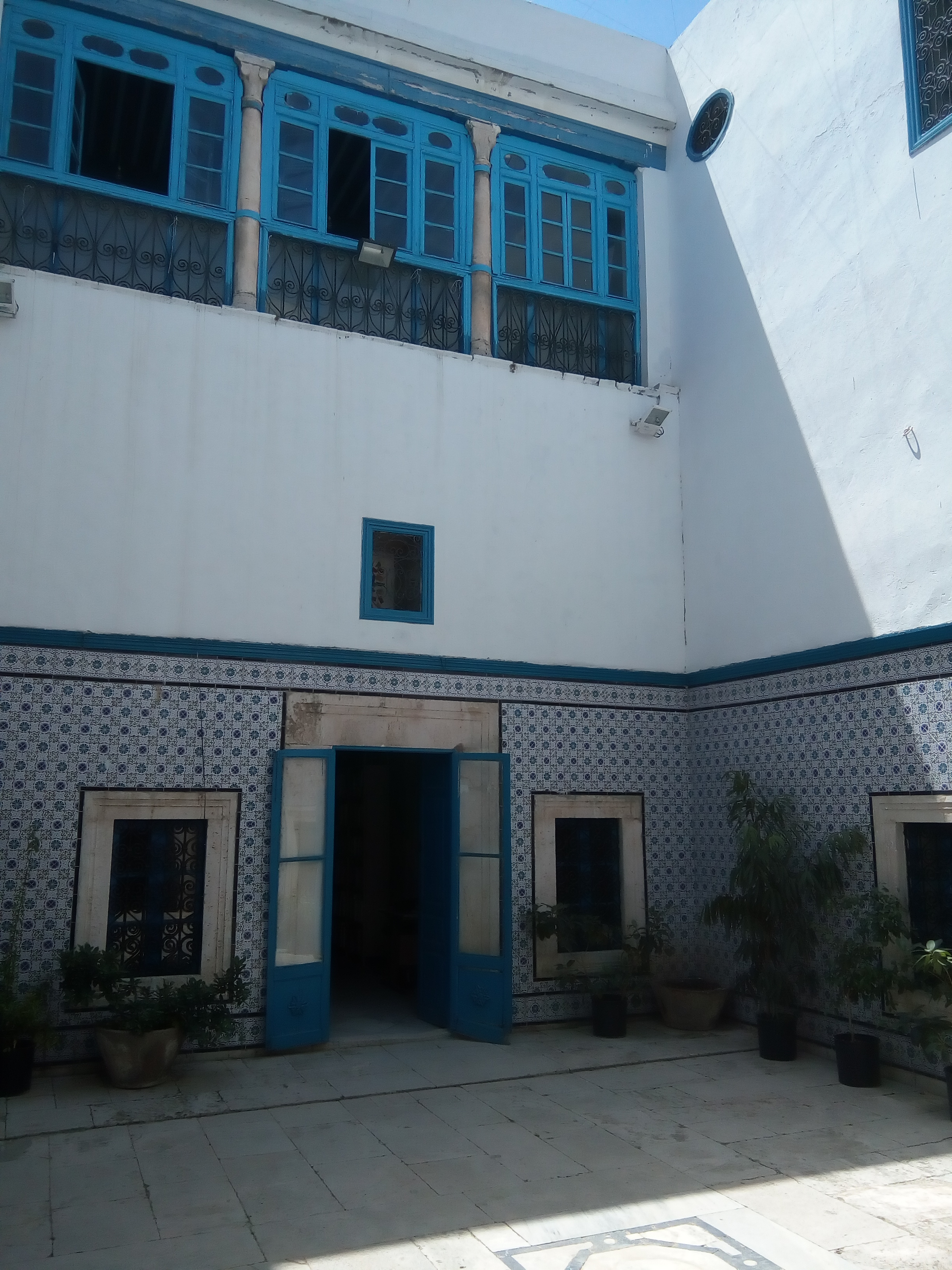 Dar Ben Achour in Tunis, Tunisia